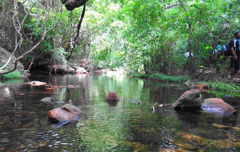 Flowing Streams in Nagalapuram Hills near SriCity